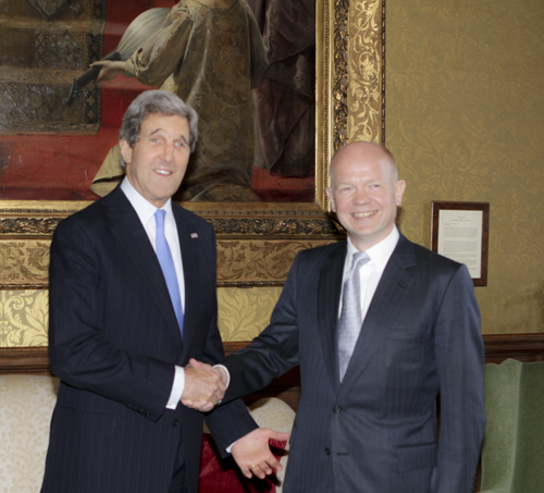 U.S. Secretary of State John Kerry shakes hands with UK Foreign Secretary William Hague at the Foreign and Commonwealth Office in London, United Kingdom, April 10, 2013. [State Department photo/ Public Domain]